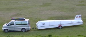 Sekiyado Gliderport, Chiba, Japan. A trailer containing a glider is towed by a van.